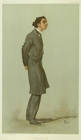 Men of the Day No.674: Caricature of Israel Zangwill. Caption reads: "A Child of the Ghetto"